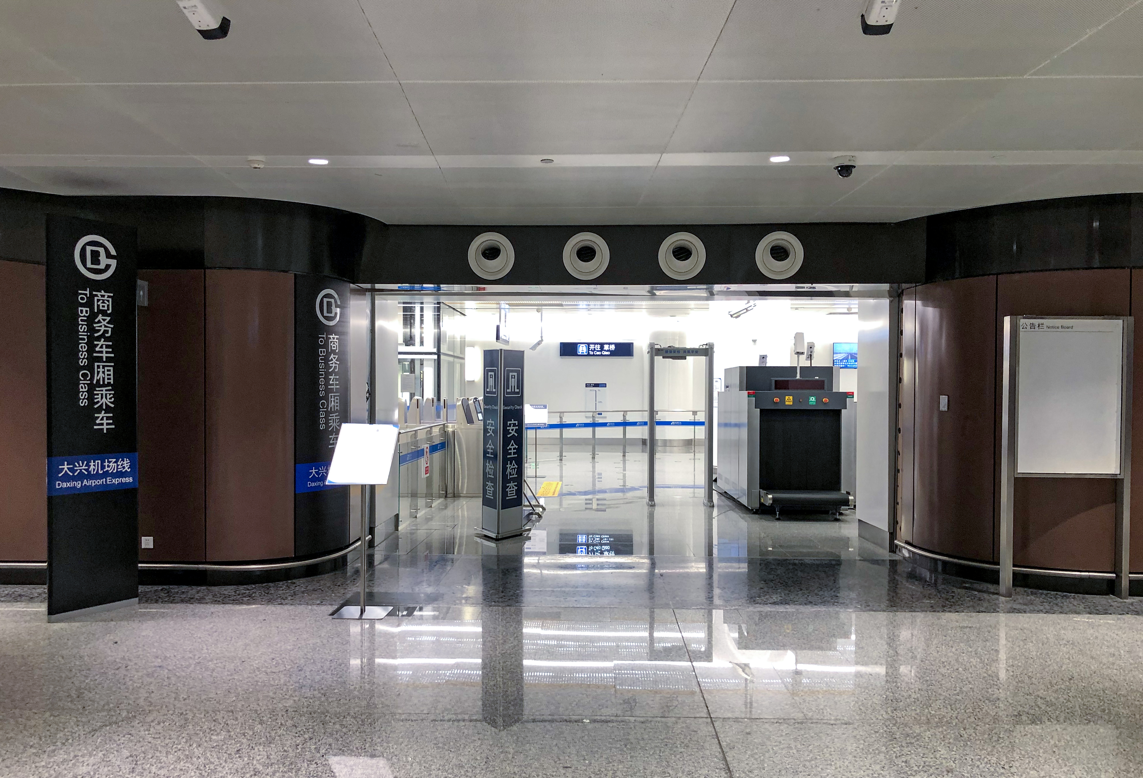 Business class for CNY50.